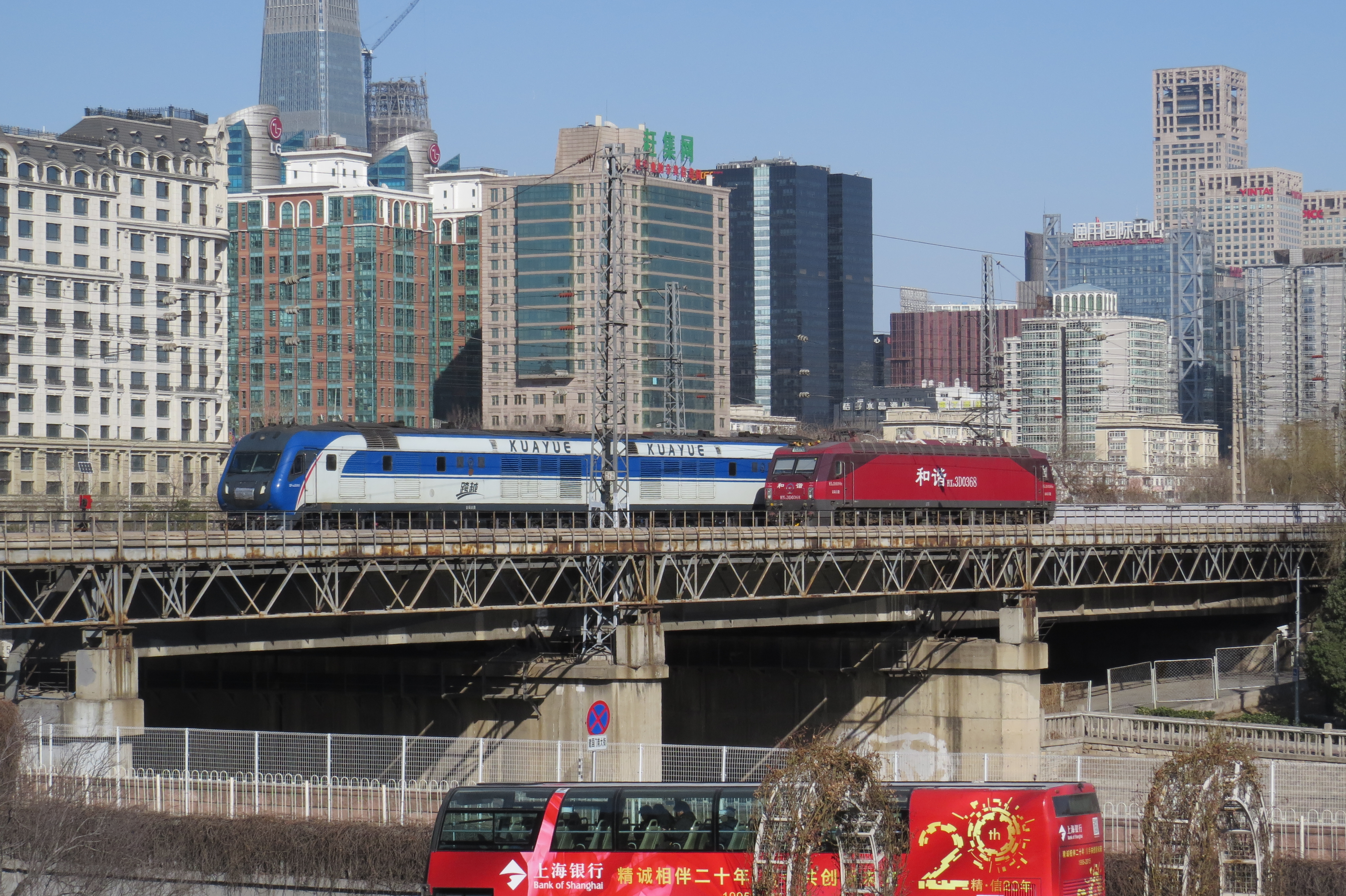 Two generations of quasi-high speed locomotive.